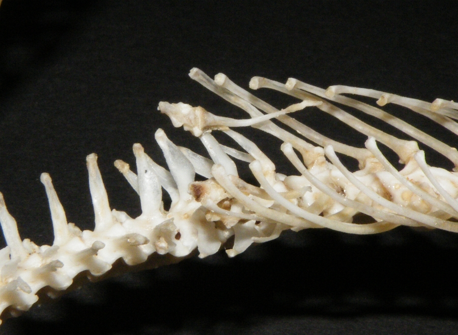 The anal spurs of a Boelen's Python (Morelia boeleni). The specimen was prepared by a colleague and is part of my personal collection.